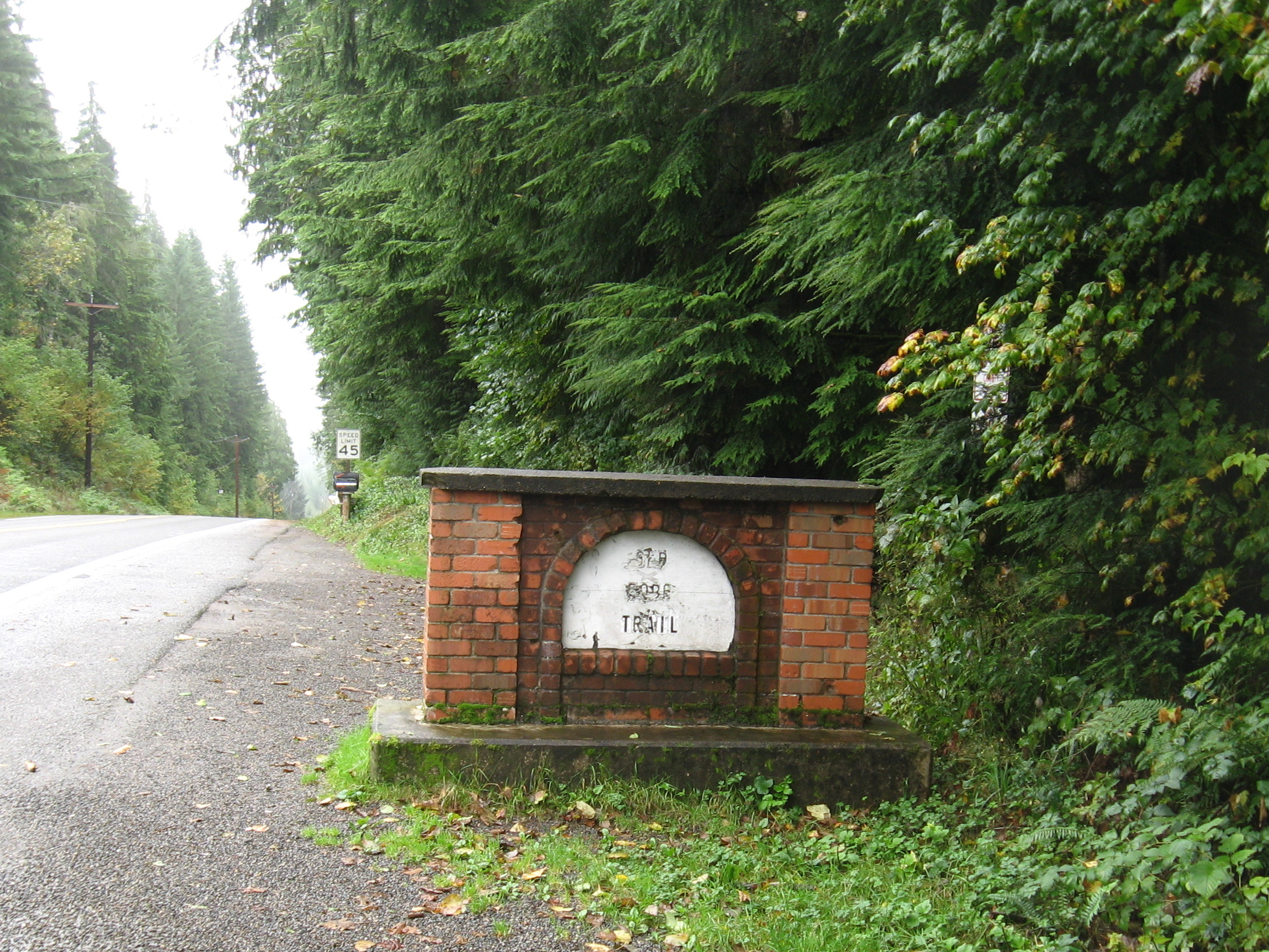 This is a photograph showing the trailhead of the Old Robe Trail located on the Mountain Loop Highway.